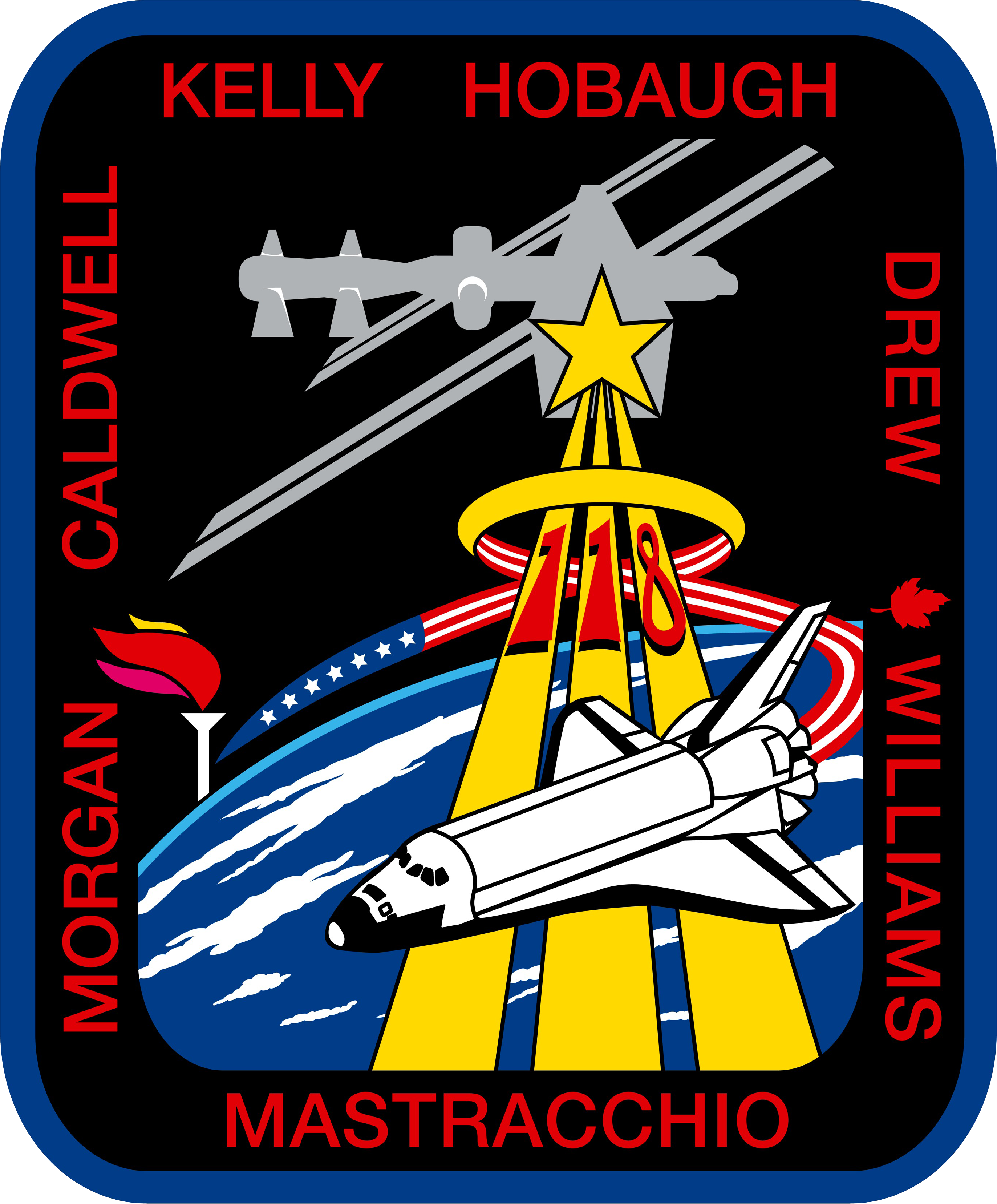 STS118-S-001 (May 2007) --- The STS-118 patch represents Space Shuttle Endeavour on its mission to help complete the assembly of the International Space Station (ISS), and symbolizes the pursuit of knowledge through space exploration. The flight will accomplish its ISS 13A.1 assembly tasks through a series of spacewalks, robotic operations, logistics transfers, and the exchange of one of the three long-duration expedition crew members. On the patch, the top of the gold astronaut symbol overlays the starboard S-5 truss segment, highlighting its installation during the mission. The flame of knowledge represents the importance of education, and honors teachers and students everywhere. The seven white stars and the red maple leaf signify the American and Canadian crew members, respectively, flying aboard Endeavour.